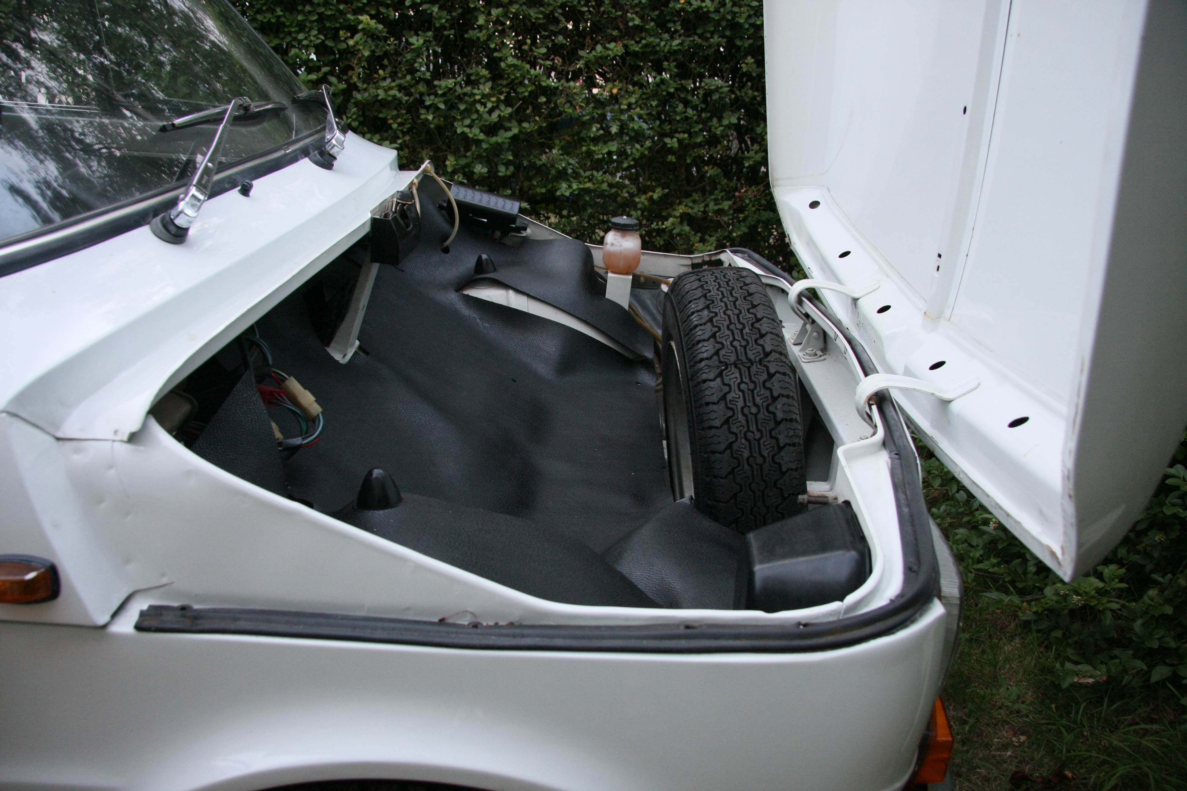 Trunk of a white left hand drive Fiat 126 produced in 1973.